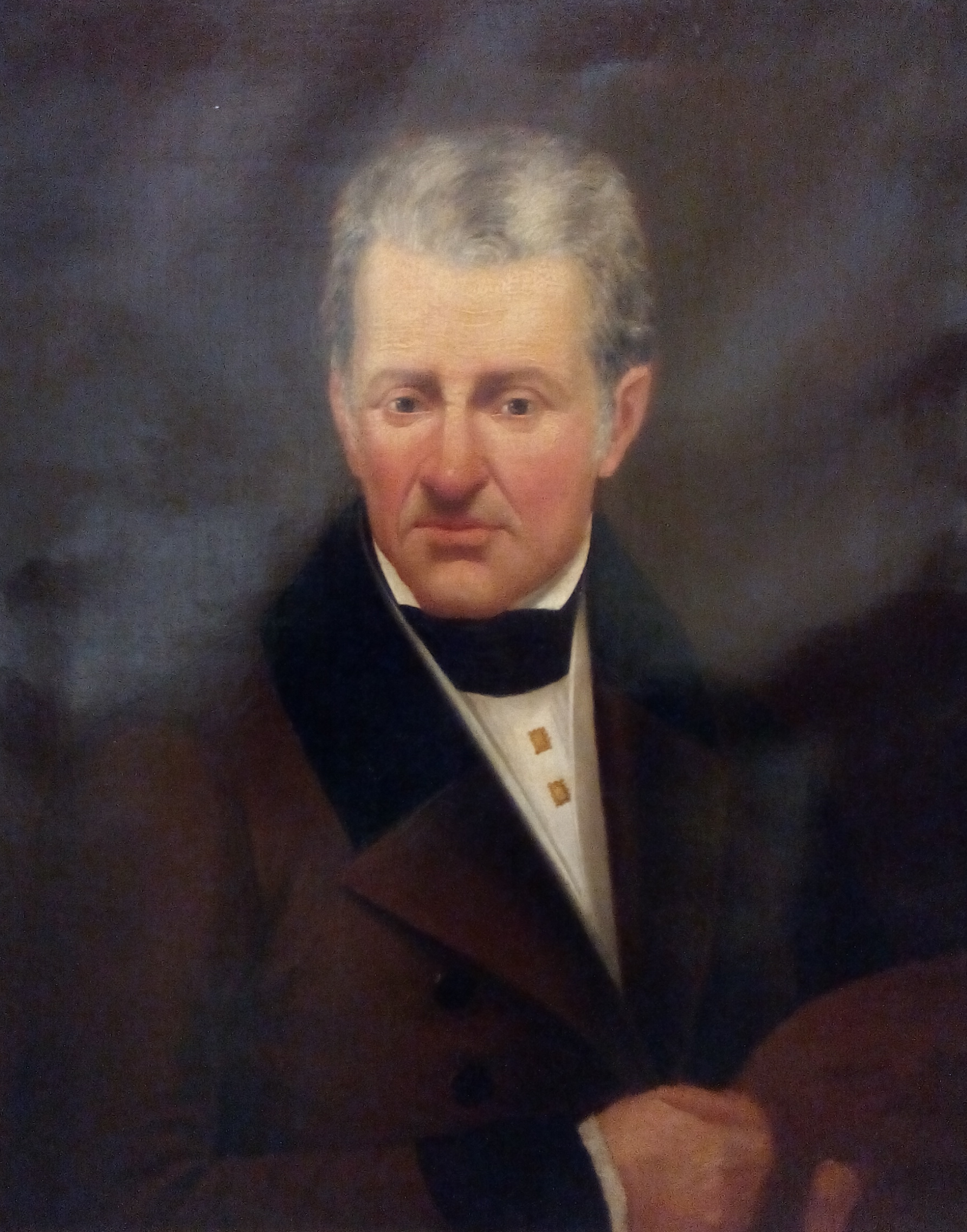 Self-portrait of Portuguese artist Joaquim Rafael (1783-1864), in the collection of the National Academy of Fine Arts (Academia Nacional de Belas Artes).